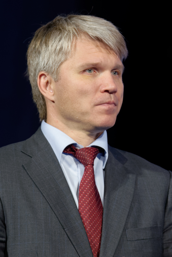 Pavel Kolobkov at the medal ceremony for foil at the 2015 World Fencing Championships on 16 July 2015 at the Olympic Stadium in Moscow.